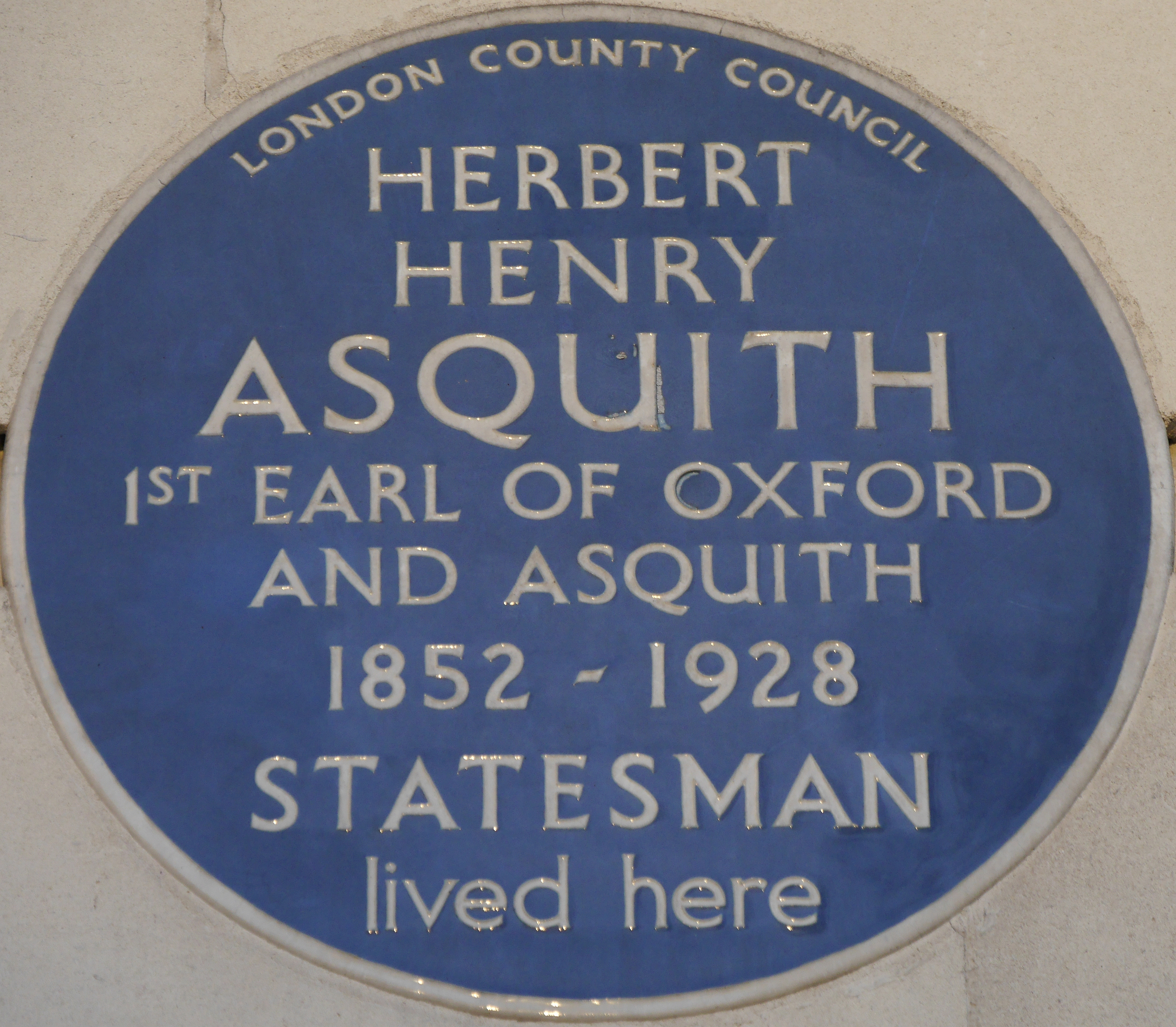 Herbert Henry Asquith 20 Cavendish Square blue plaque